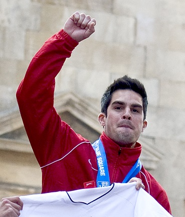 Jon Challinor with the victory parade that followed York City's victory in the 2012 Conference Premier play-off Final